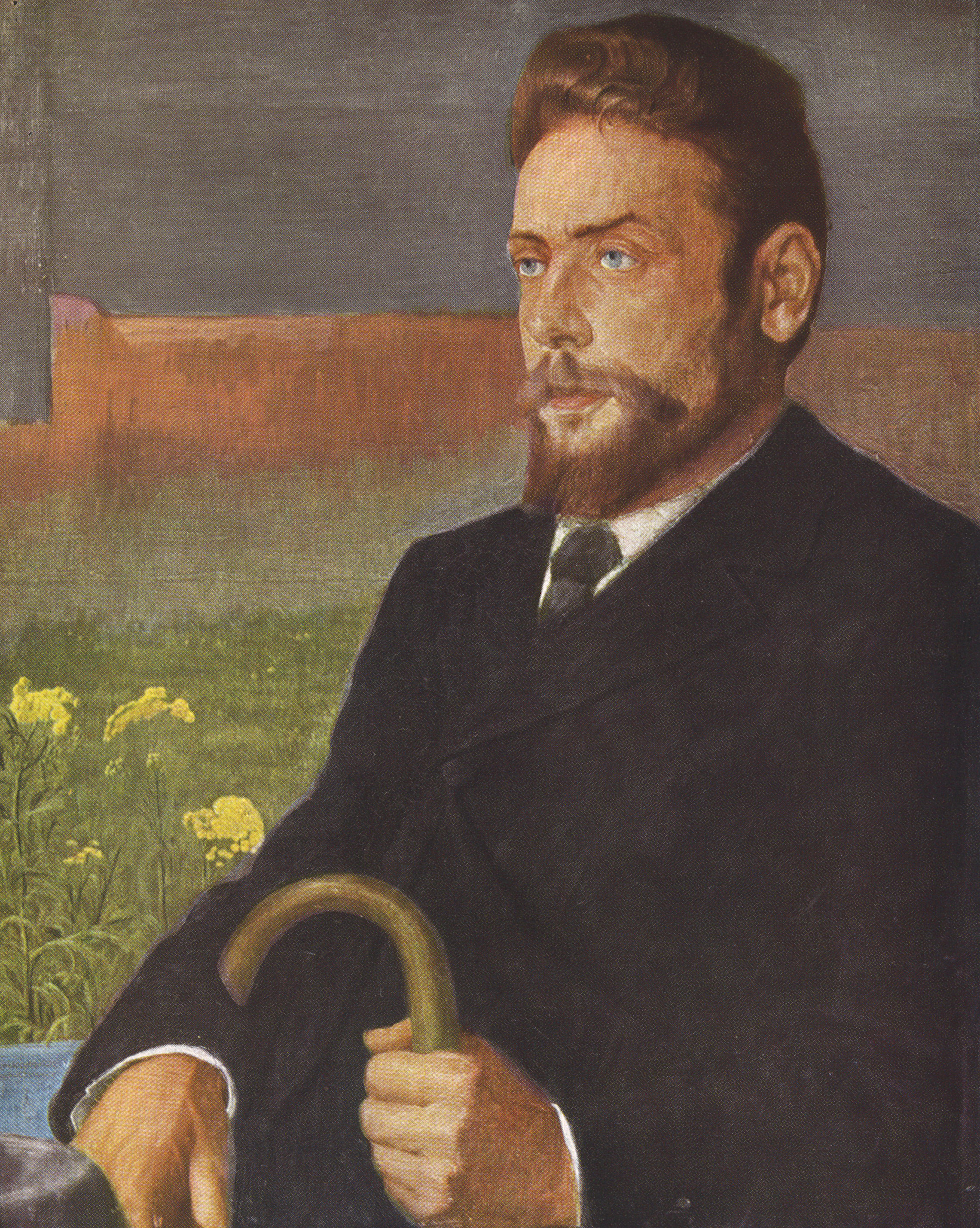 Henrik Pontoppidan (1857-1943), Danish writer and Nobel prize winner.